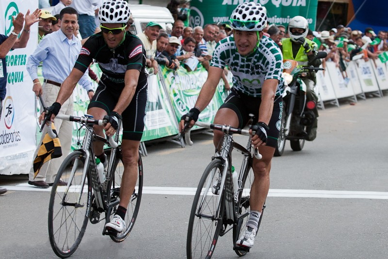 Sergio Henao wins 2nd stage of the Vuelta a Antioquia 2011, Oscar Sevilla second